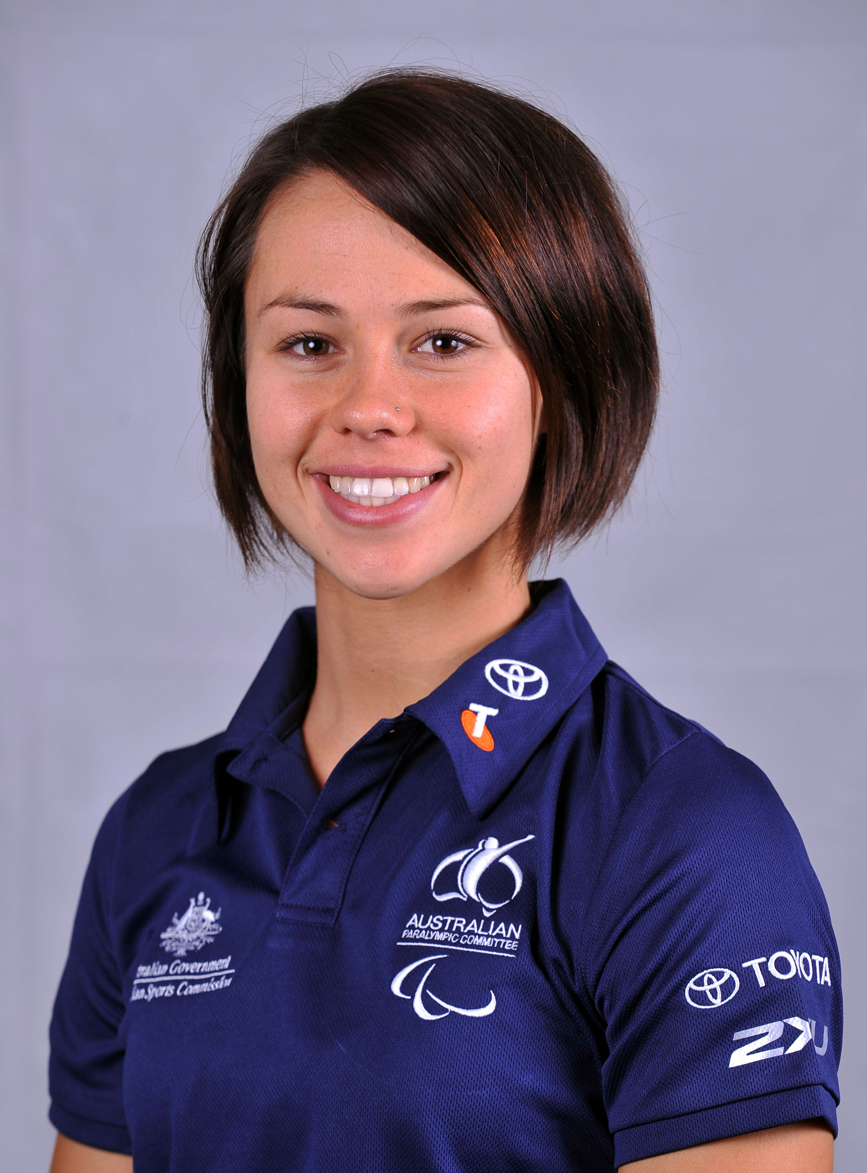 Portrait of Australian athlete Kelly Cartwright, 2012 Australian Paralympic (shadow) Team athlete